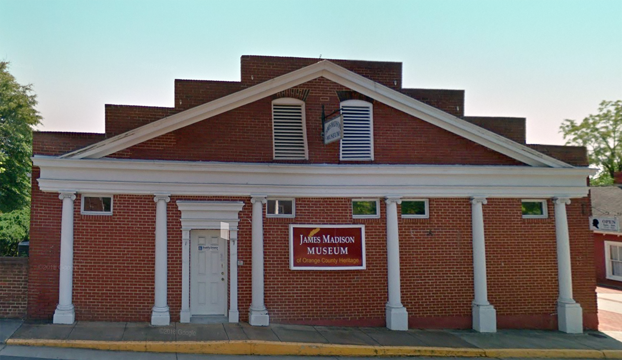 Front of James Madison Museum of Orange County Heritage 129 Caroline Street, Orange, Virginia 22960